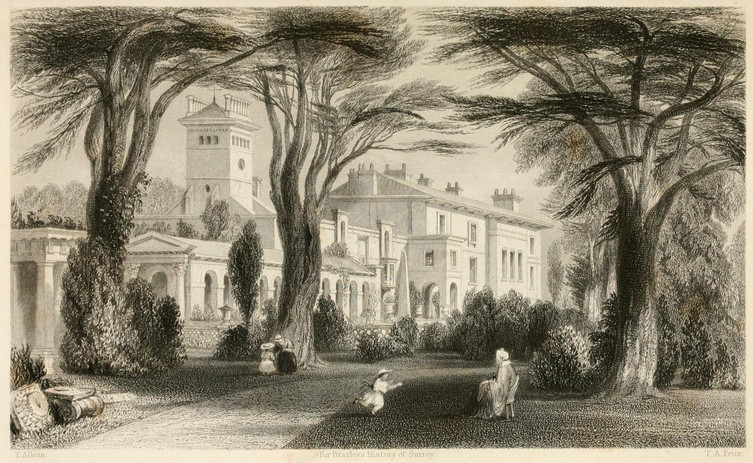 Engraving of Ockham Park Surrey, c. 1850, seat of William King-Noel, 1st Earl of Lovelace and Ada Lovelace.